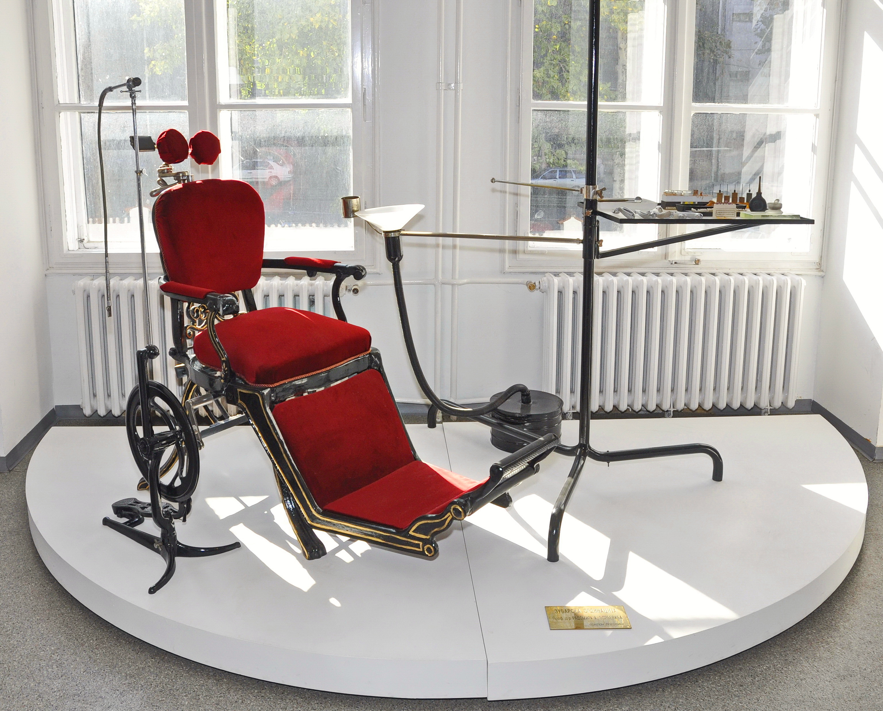 An old dentist's office. It is part of collection of Museum of Science and Technology Belgrade.